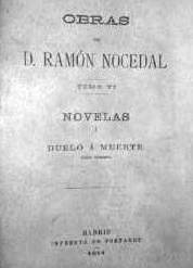 cover page of Obras of Ramon Nocedal, vol. 6, Madrid 1911